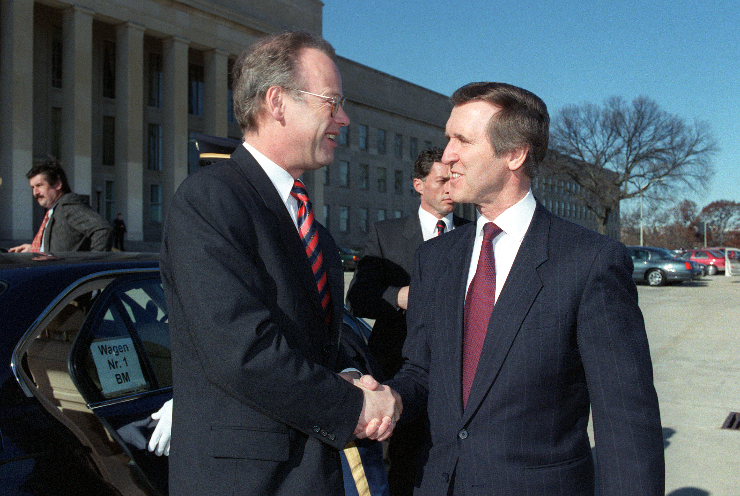 Secretary of Defense William Cohen (right) greets visiting German Minister of Defense Rudolf Scharping outside the Pentagon, Nov. 24, 1998. Following a welcoming ceremony, Cohen and Scharping will meet to discuss a range of security issues of interest to both nations.